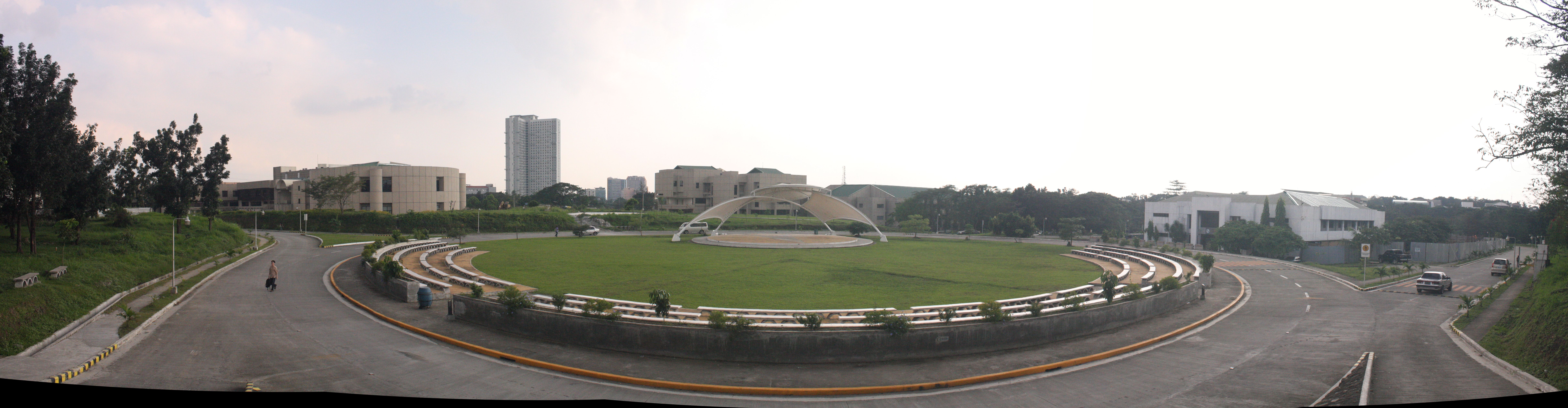 Panoramic view of the National Science Complex.